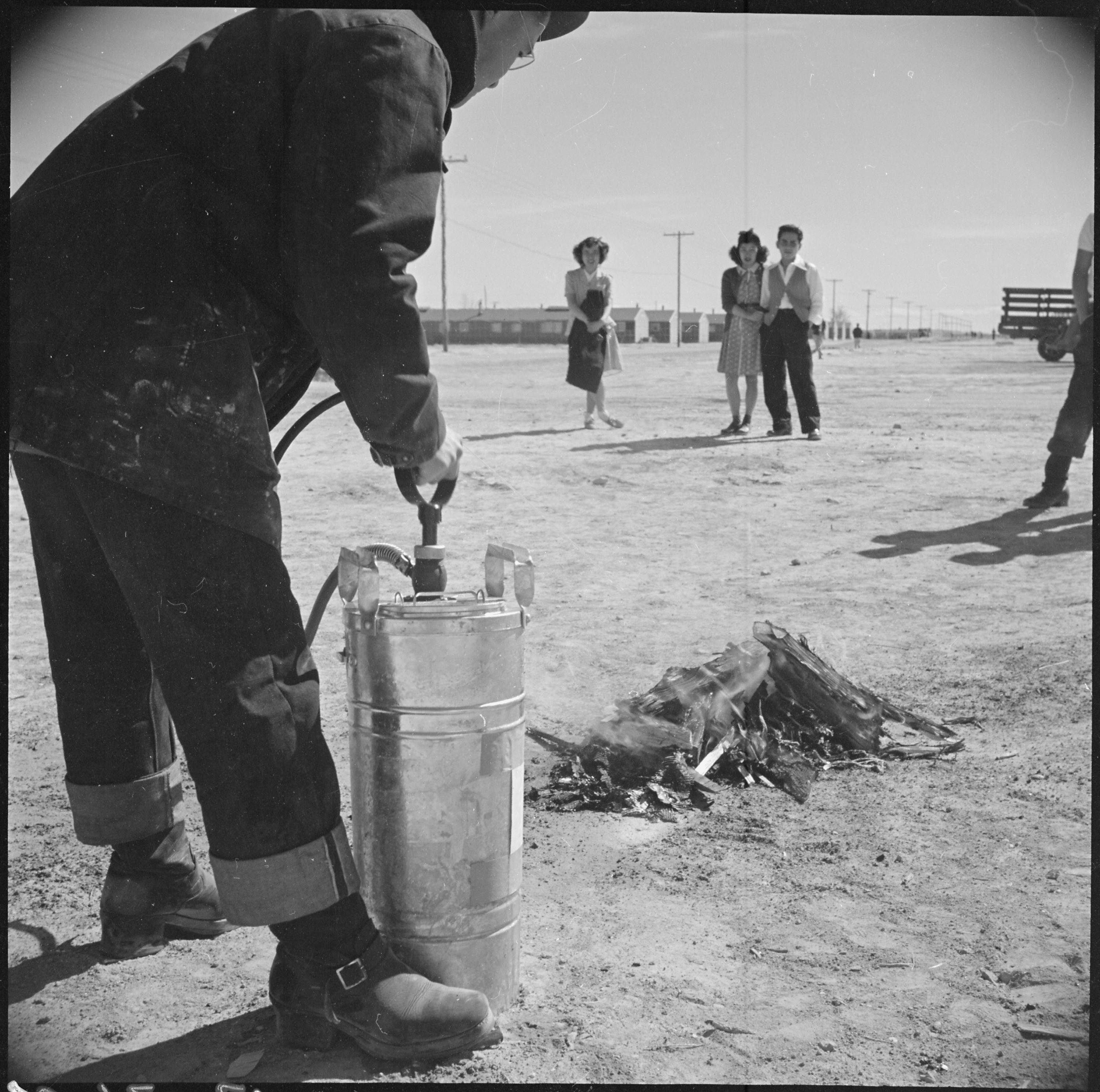 Scope and content: The full caption for this photograph reads: Topaz, Utah. A demonstration fire fighting with a stirrup pump is put on by evacuee member of the fire department.